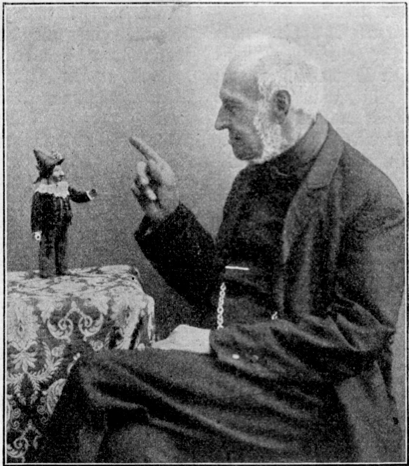 Portrait of J. Schmidt founder of the Munich Marionettentheater